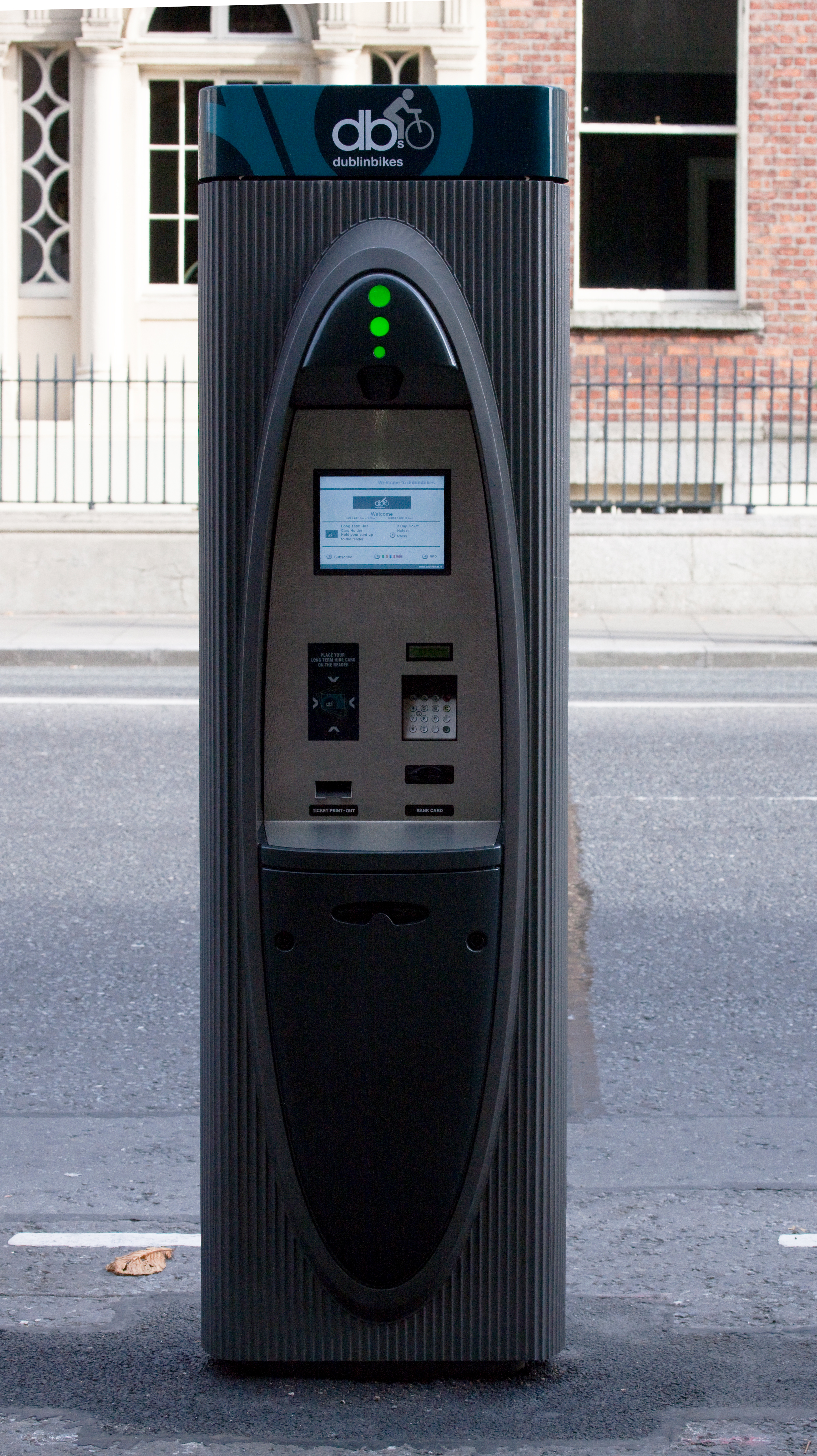 Dublin joins the list of great cities to have its own bike sharing scheme, including Seville, Brussels, Vienna, Paris and many more.